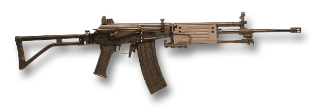 Israeli-Made Galil-Type Assault Rifle